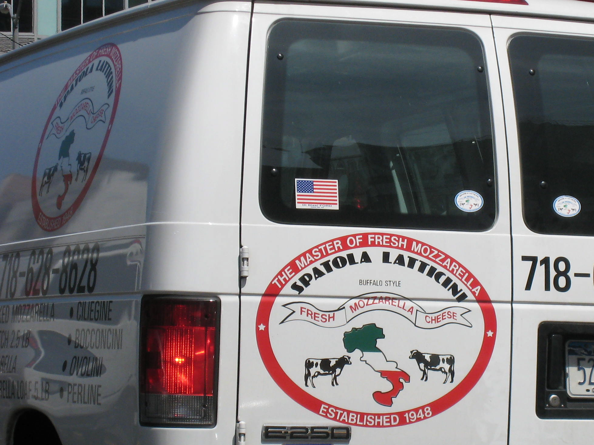 Mozzarella delivery truck in New-York, USA